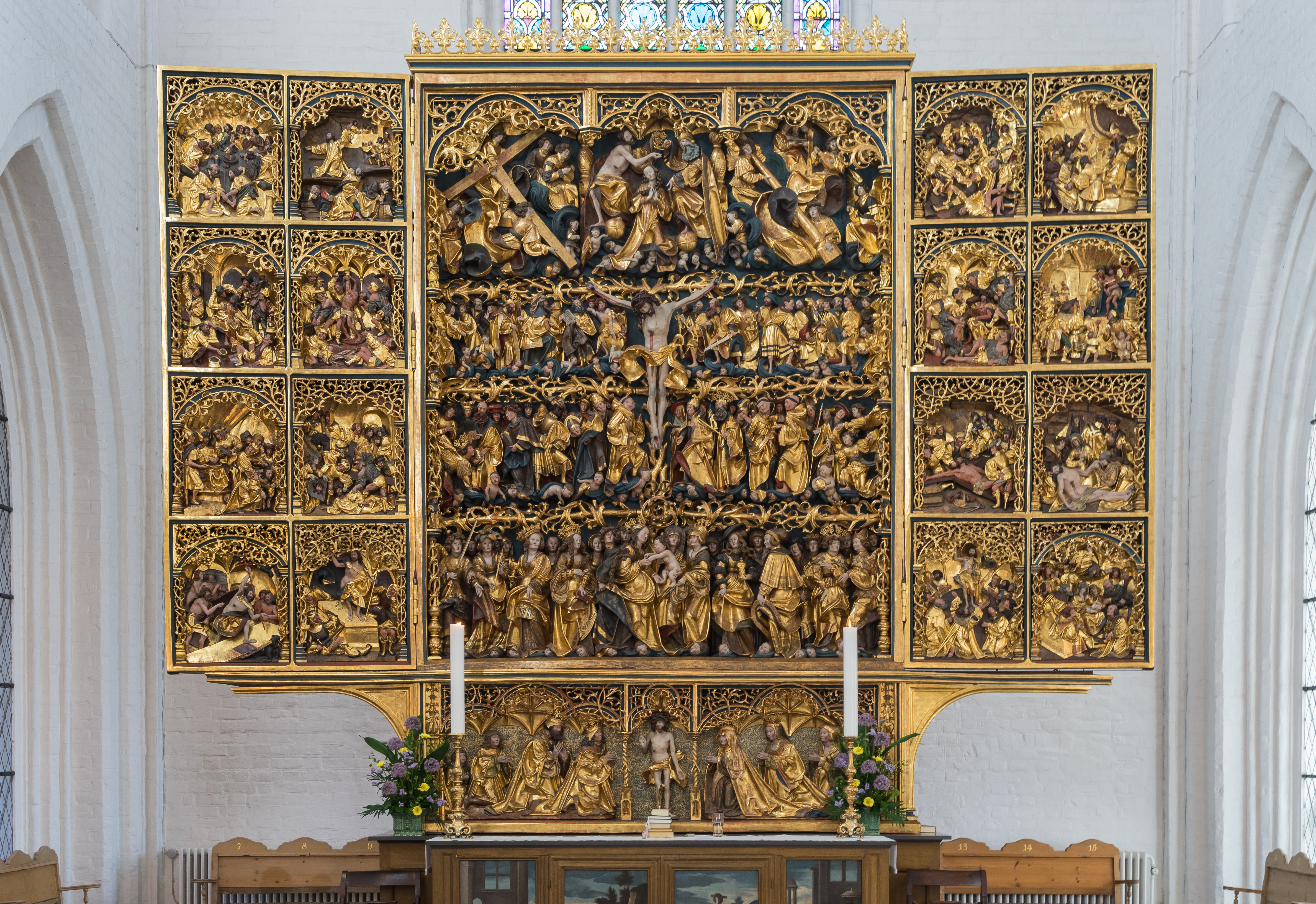 Altar in St. Knuds church (the cathedral) in Odense, Denmark